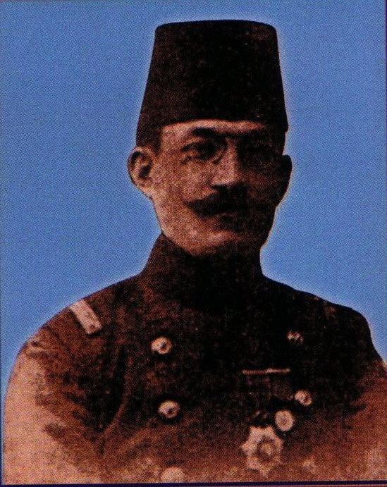 After World War I, Ahmet Refik wrote Two committees two massacres (İki Komite iki Kitâl), an account of the massacres during the War. Though Refik writes about massacres conducted on both sides, he concludes that the massacres against the Armenians was an attempt by the Turkish government to "destroy the Armenians".